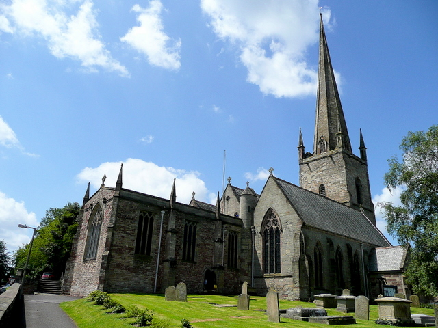 St. Mary's church, Ross-on-Wye Looking from the north-east alongside Church Road.